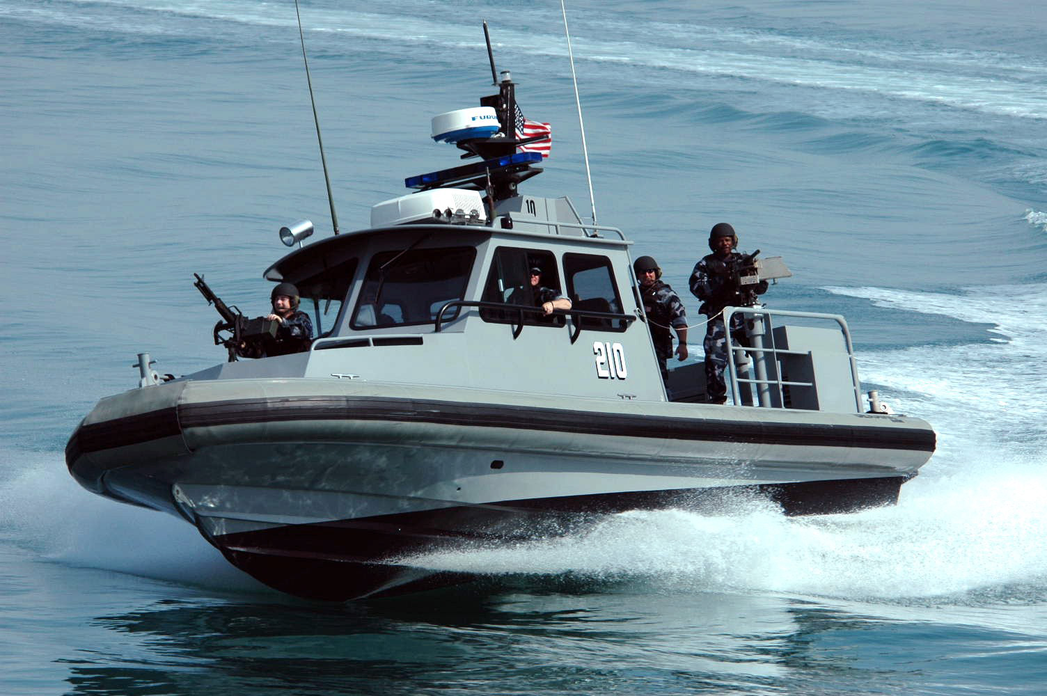 Kuwait Naval Base, Kuwait (Mar. 3, 2005) - Sailors assigned to Inshore Boat Unit Two Four (IBU-24) conduct a security patrol in the waters near Kuwait Naval Base. 30 Sailors assigned to IBU-24 are participating in Task Force Uniform by testing the Navy's newest concept uniforms. The Navy introduced a set of concept working uniforms for Sailors E-1 through O-10, Oct. 18, 2004, in response to the fleet's feedback on current uniforms. Four different uniform pattern types will be tested this winter at various locations throughout the world. Each uniform offers a variety of options that Sailors will have the opportunity to choose from. Feedback from the fleet will be used to determine the final Navy Working Uniform. U.S. Navy photo (RELEASED)